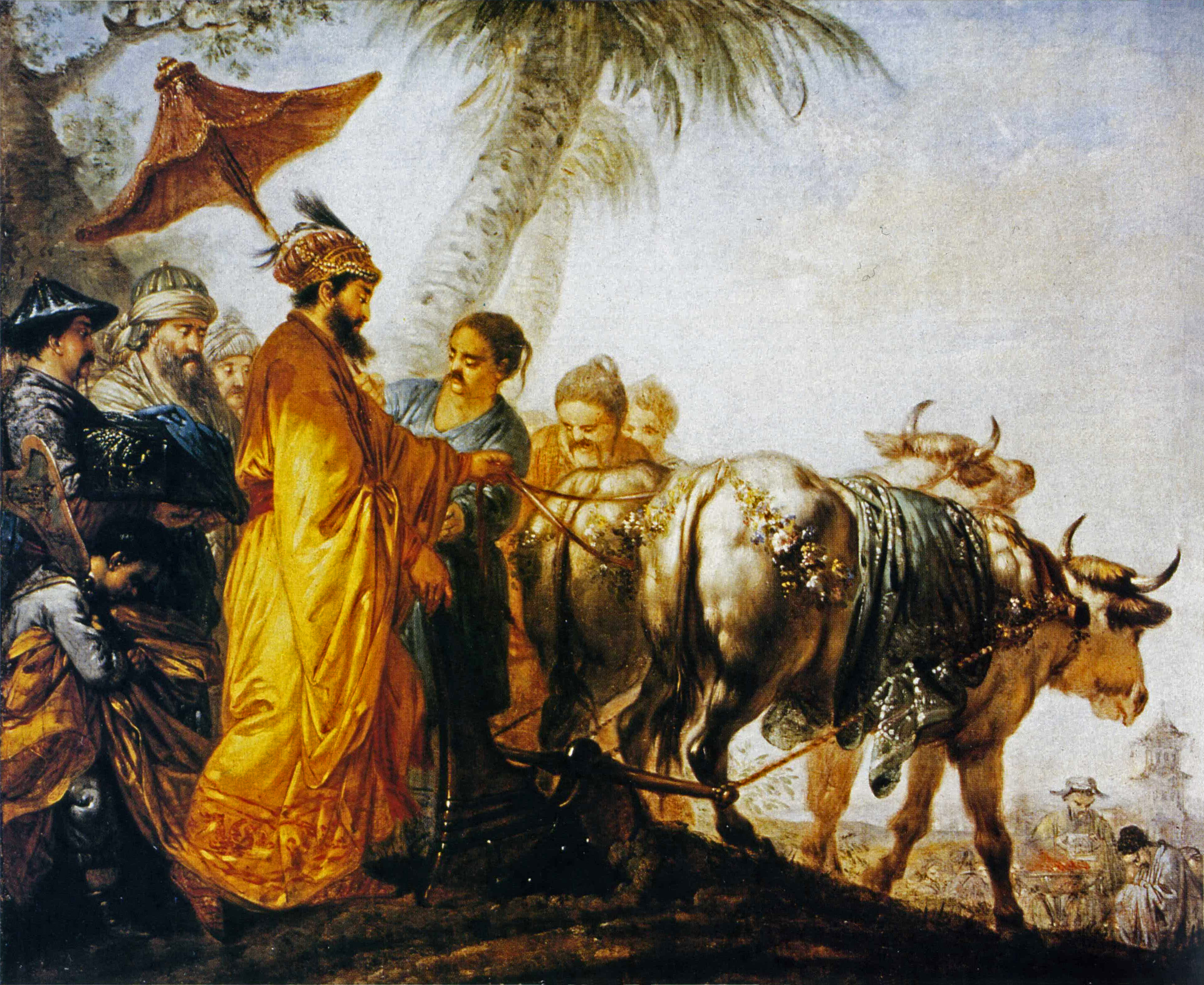 The Emperor of China Opens the First Furrow in Honor of Land Cultivation. Painting by Bernhard Rode, ca. 1770. Gemäldegalerie, Berlin, formerly Gut Britz.